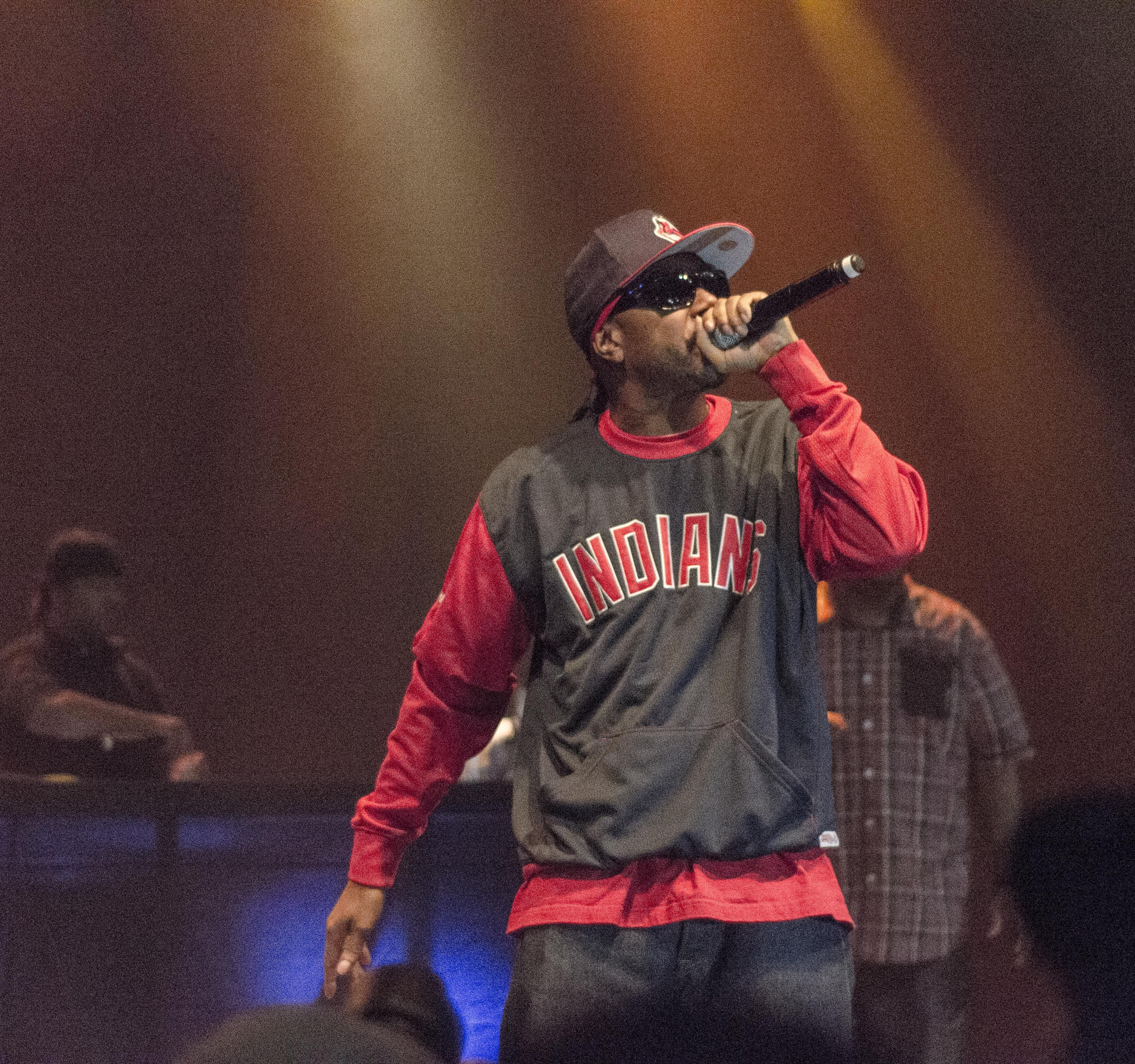 Bone Thugs N Harmony @ Danforth Music Hall 2015 Featuring King Reign. Shot in Danforth Music Hall September 12, 2015 in Toronto. Photography by Drew Yorke for The Come Up Show. Check out the full review at